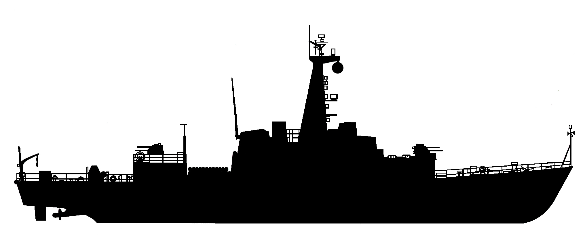 Polish Navy minesweeper type 206F (file name 206FM is incorrect)